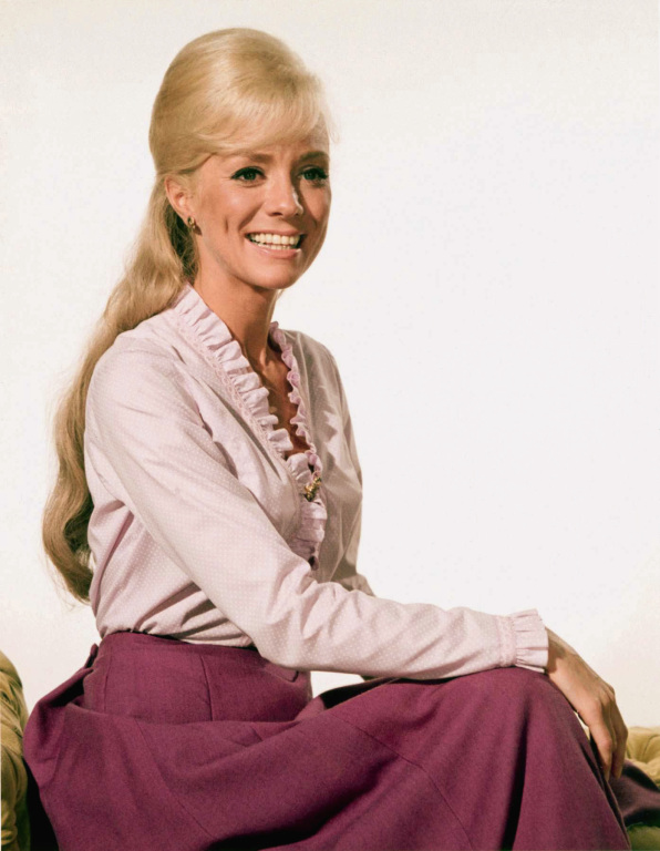 Inger Stevens in Hang 'Em High (1968) - publicity still